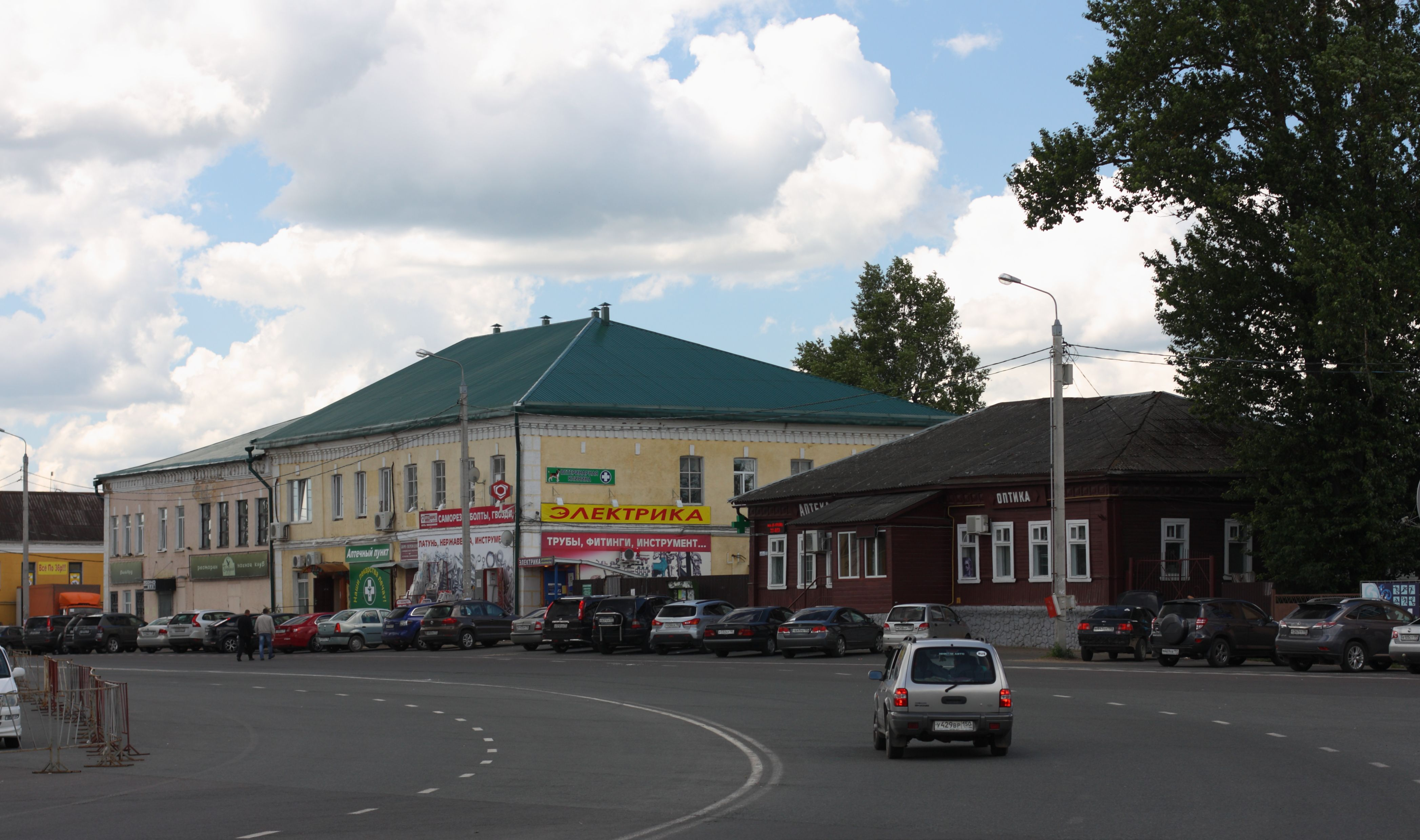 Russia, Mozhaysk. Komsomolskaya square